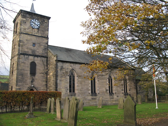 St Cuthbert's parish church, Haydon Bridge, Northumberland, seen from the south